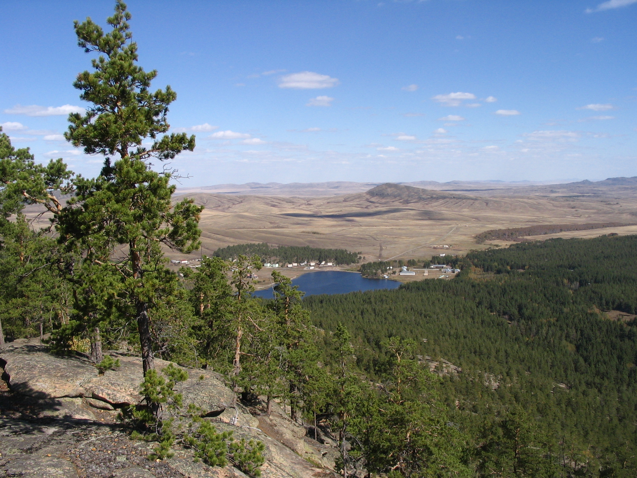 Reserve Karkaralinsky in Qaraghandy Province